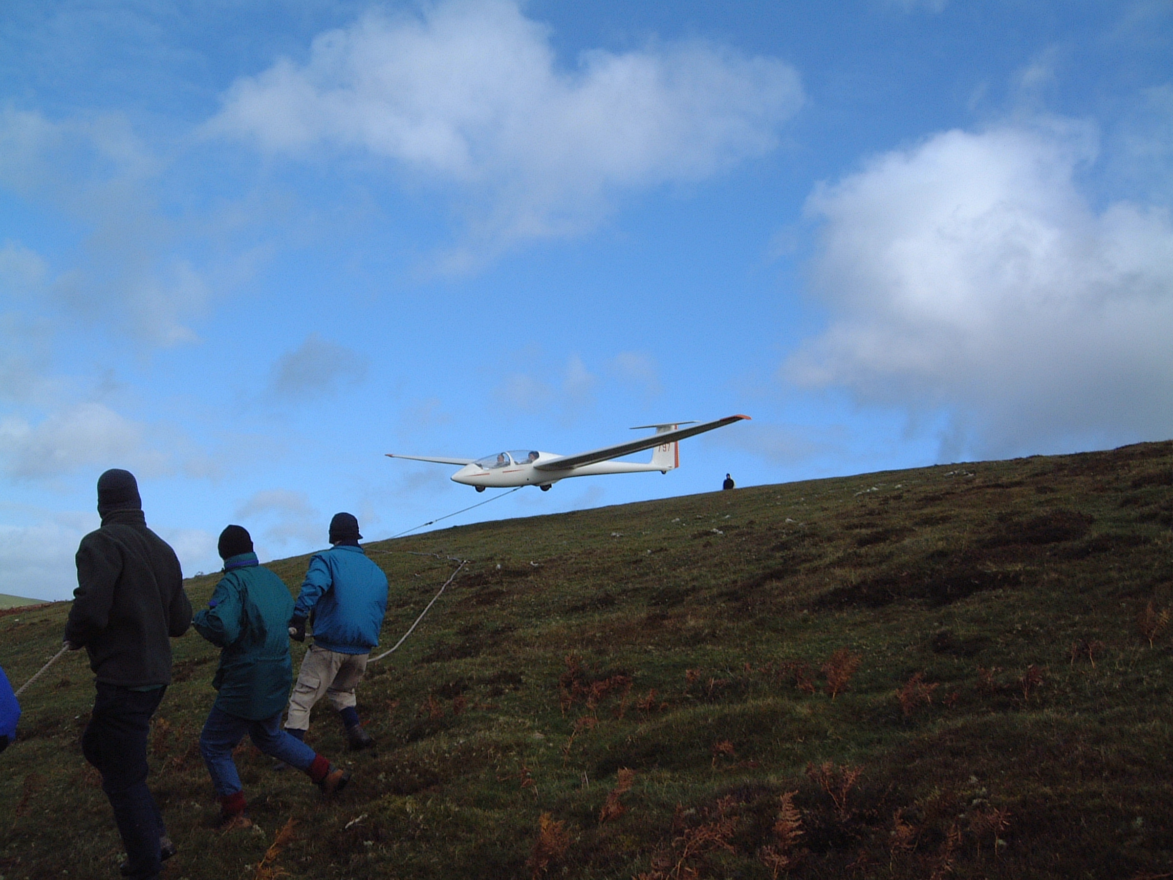 Bungy launch of a ASK-21 glider.